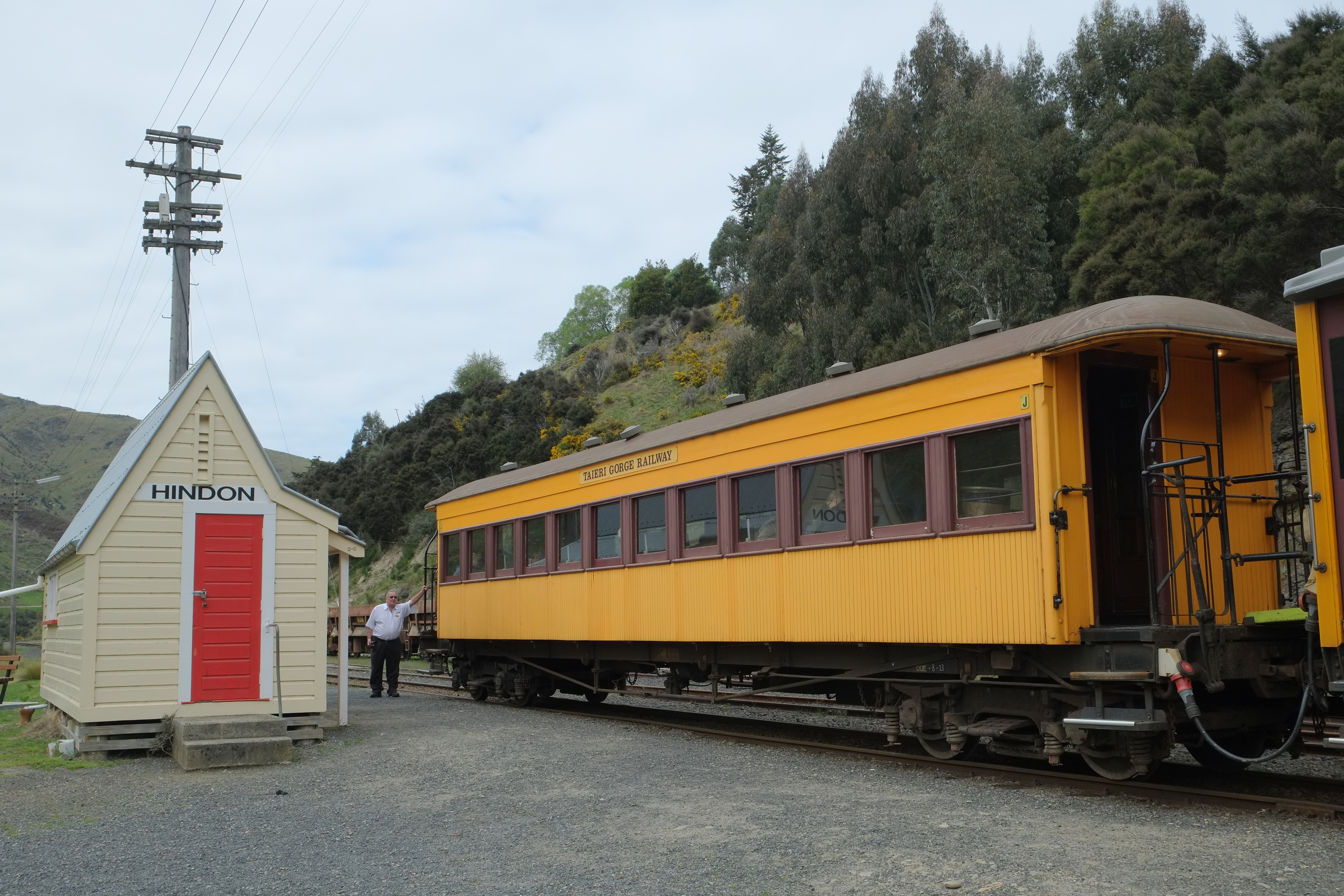 Taieri Gorge Railway carriage at Hindon